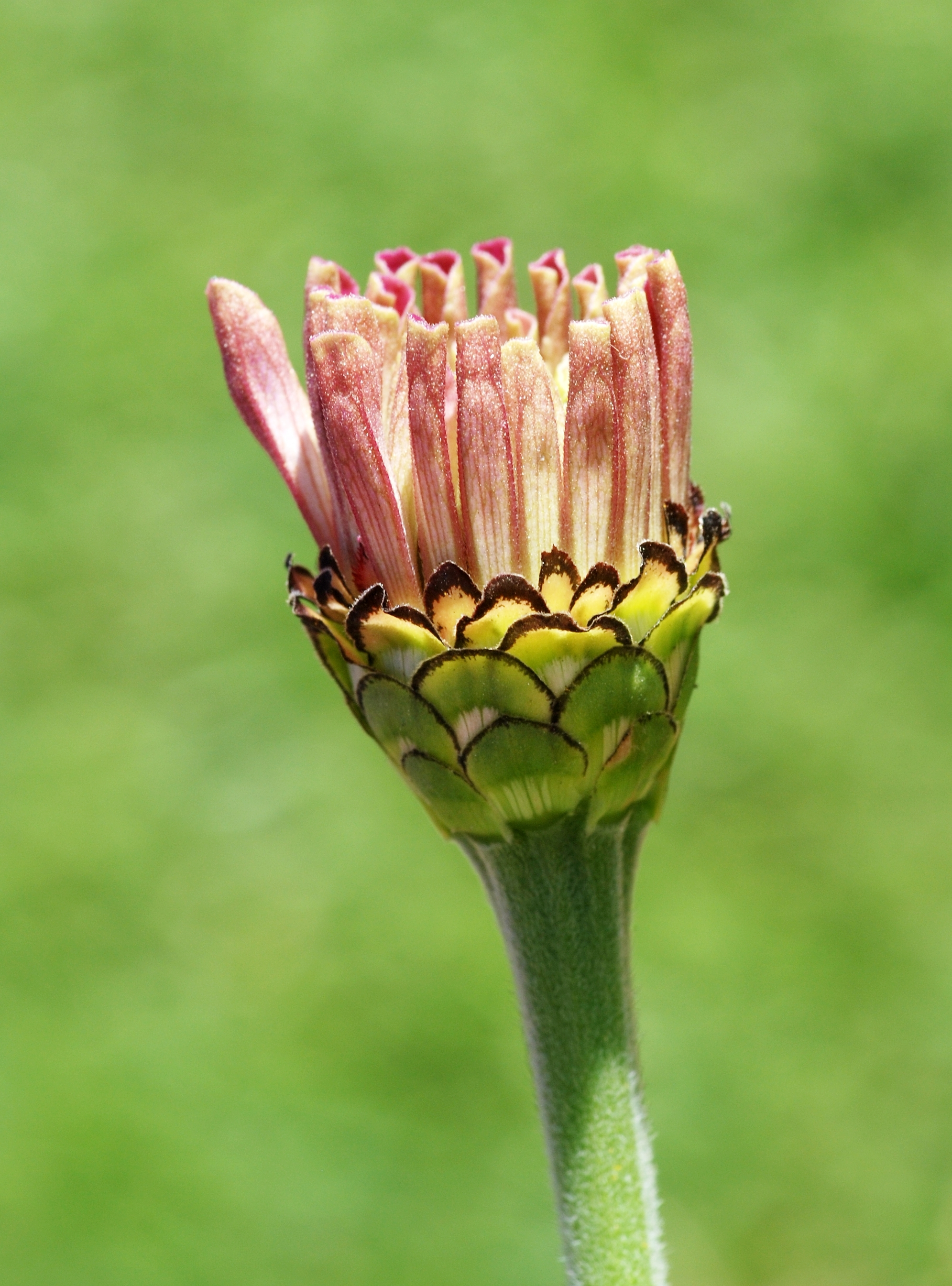 Bud of a Zinnia elegans